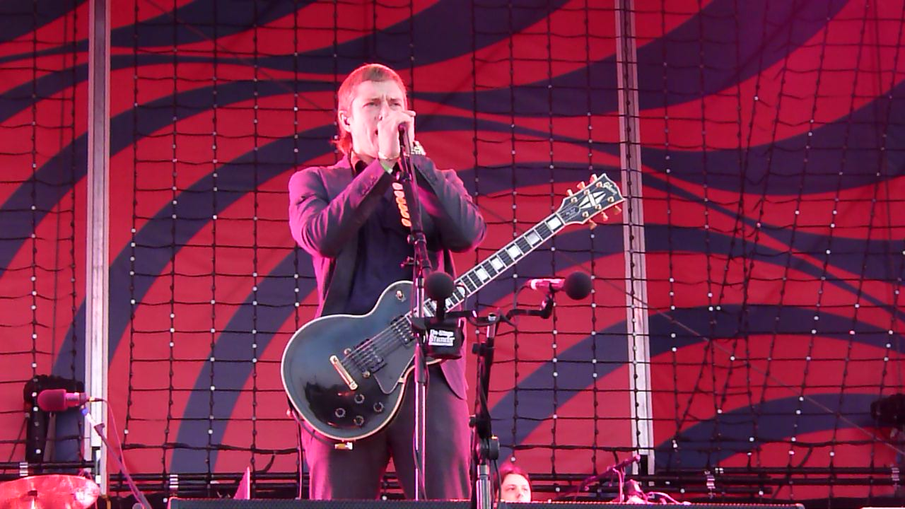 Paul Banks. Live at Sziget, Budapest. Pop-rock Stage, 10th of August, 2011. An American post-punk band from New York City, NY. Formed in 1997. Paul Banks (vocals, guitar), Daniel Kessler (guitar, vocals) Sam Fogarino. Interpol is one of the bands associated with the New York City indie music scene, and was one of several groups that emerged out of the post-punk revival of the 2000s. The band's sound is generally a mix of staccato bass and rhythmic, harmonized guitar, with a snare heavy mix, drawing comparisons to post-punk bands such as Joy Division and The Chameleons.Published under Creative Commons in the Metapolisz DVD line.